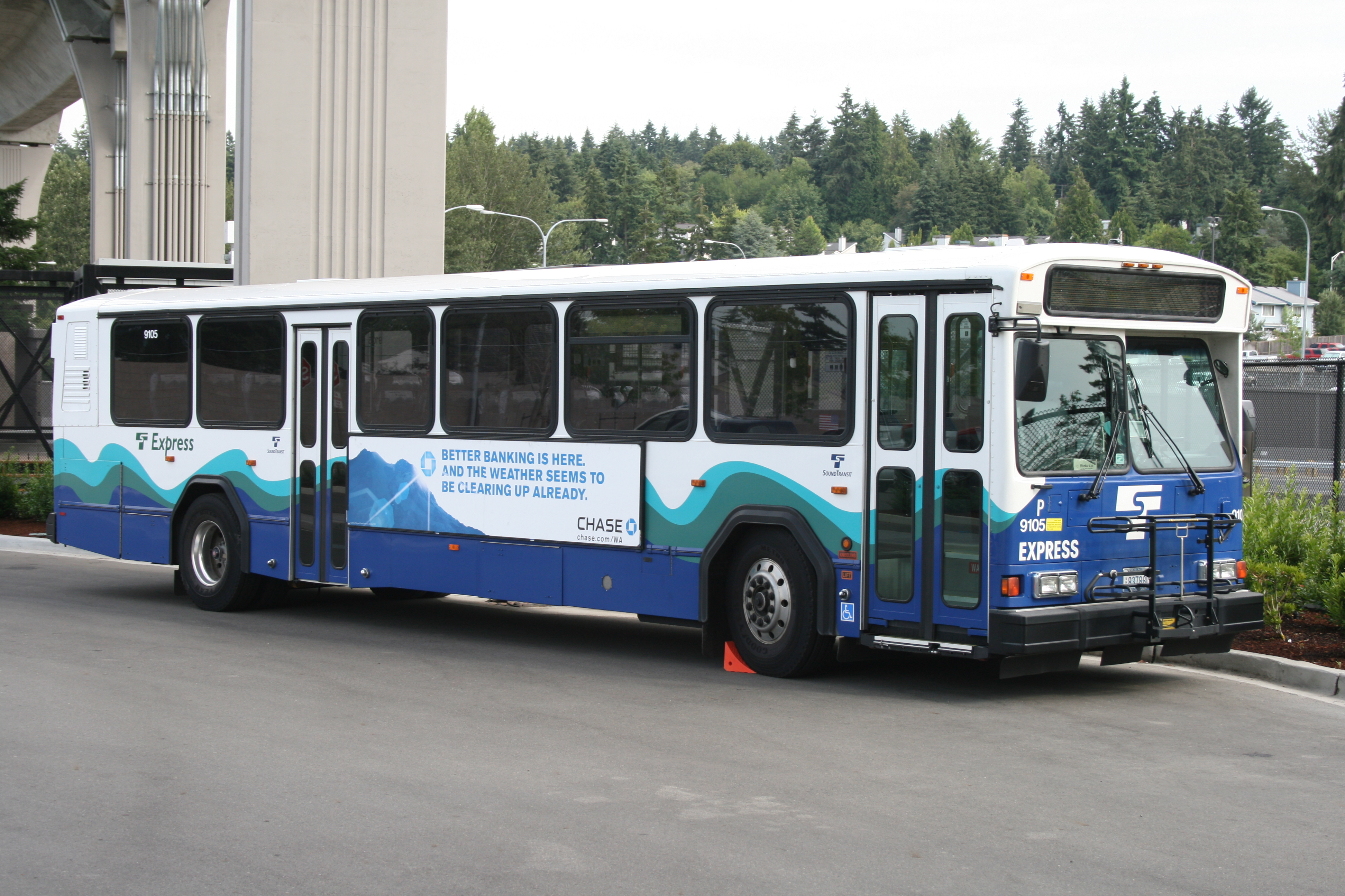 Sound Transit's 2008 40 foot Gillig Phantom operated by Pierce Transit coach # 9105-P